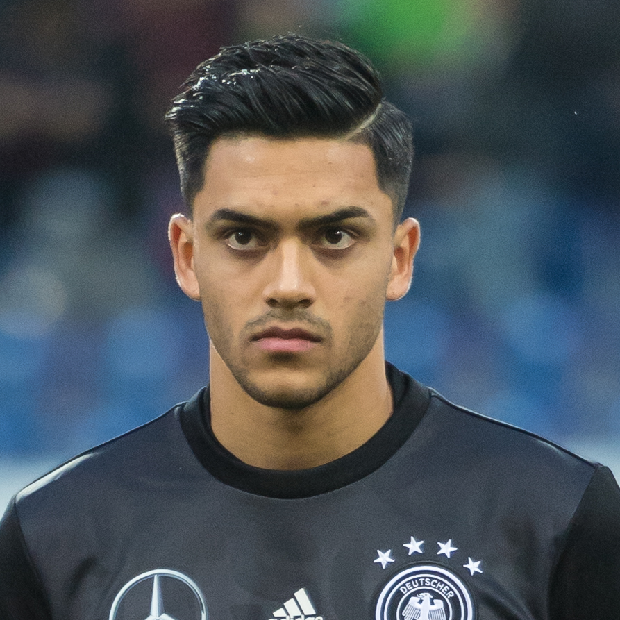 European Under-21 Championship 2017 Qualifying Round, Austria vs Germany, 11/10/2016, St. Polten